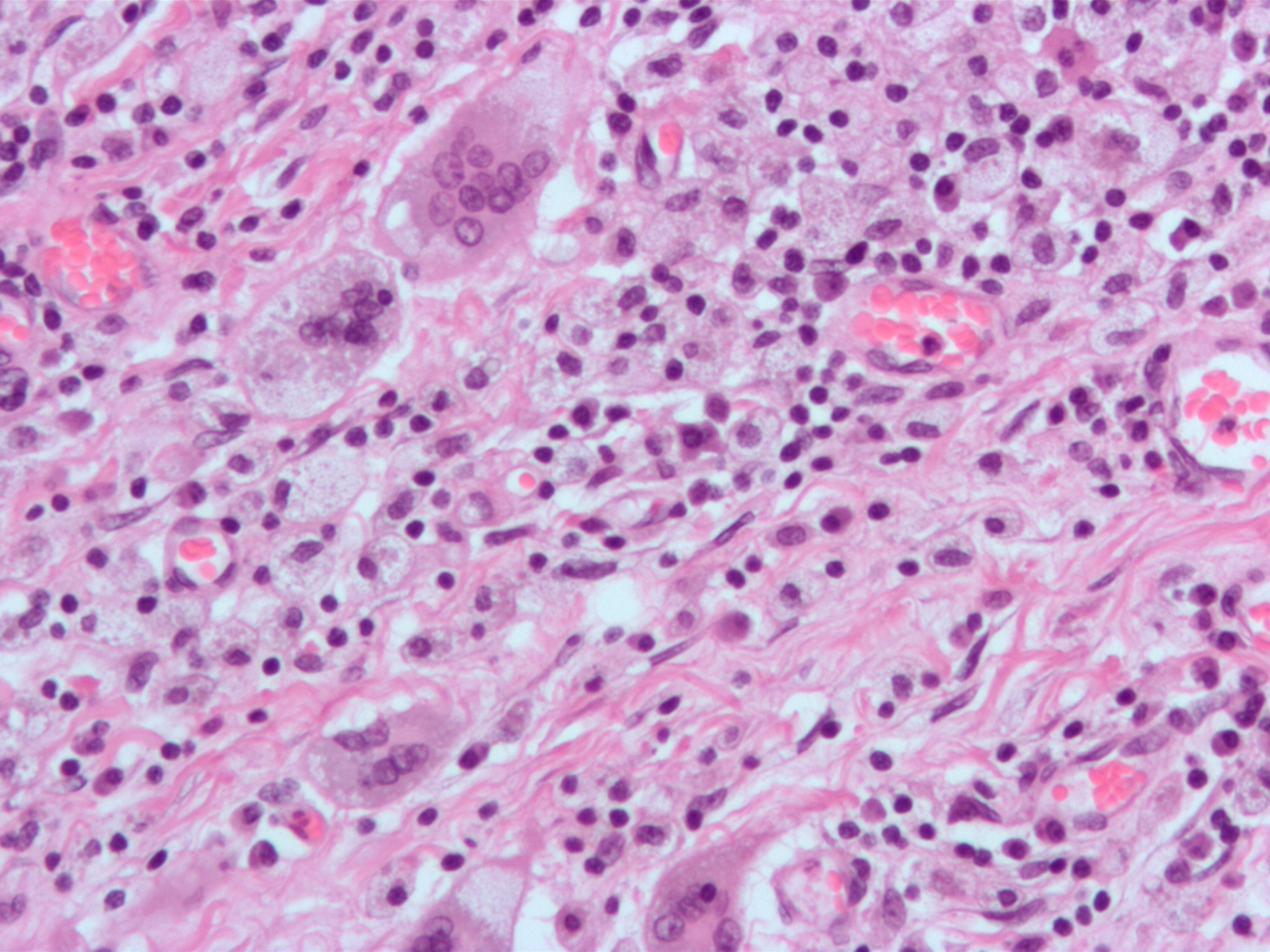 Several multinucleated giant cells. Seen here in the context of pyelonephritis. H&E stain.